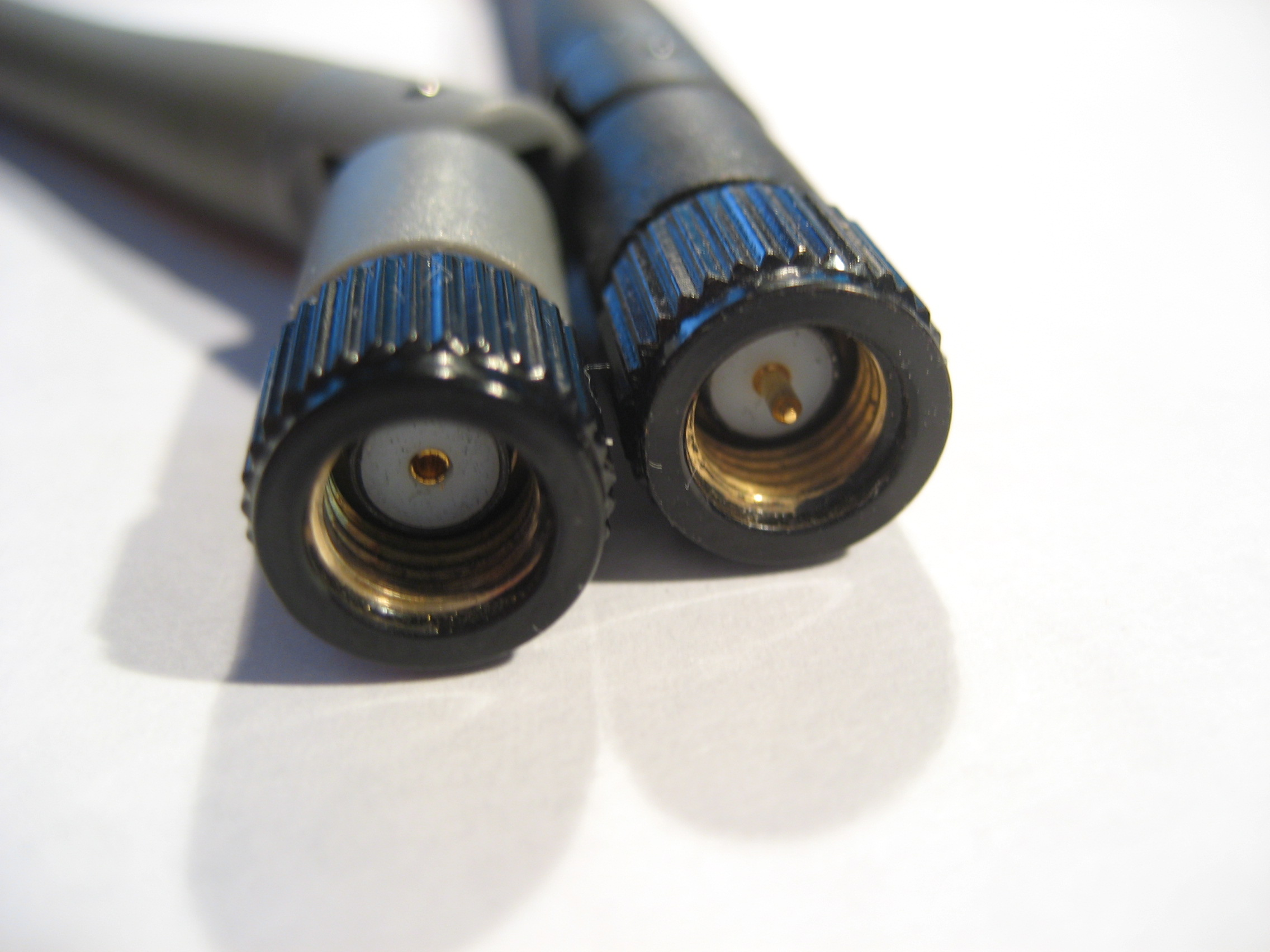 RP-SMA plug (left) and SMA plug (right)